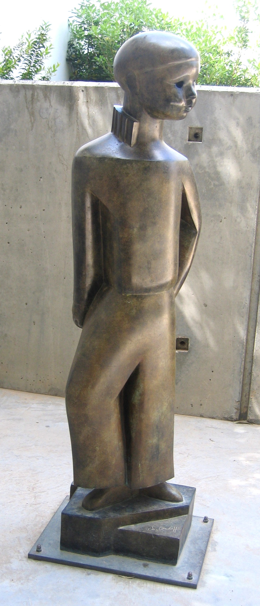 Chana Orloff (1888-1968), My son (1924), Bronze photo by talmoryair, 8.4.2007 at the tel aviv museum of art